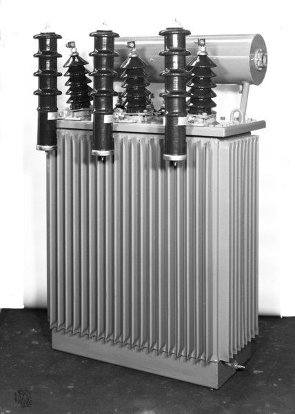 Mains transformer produced by A/S Per Kure Norwegian Motor and Dynamofabrik